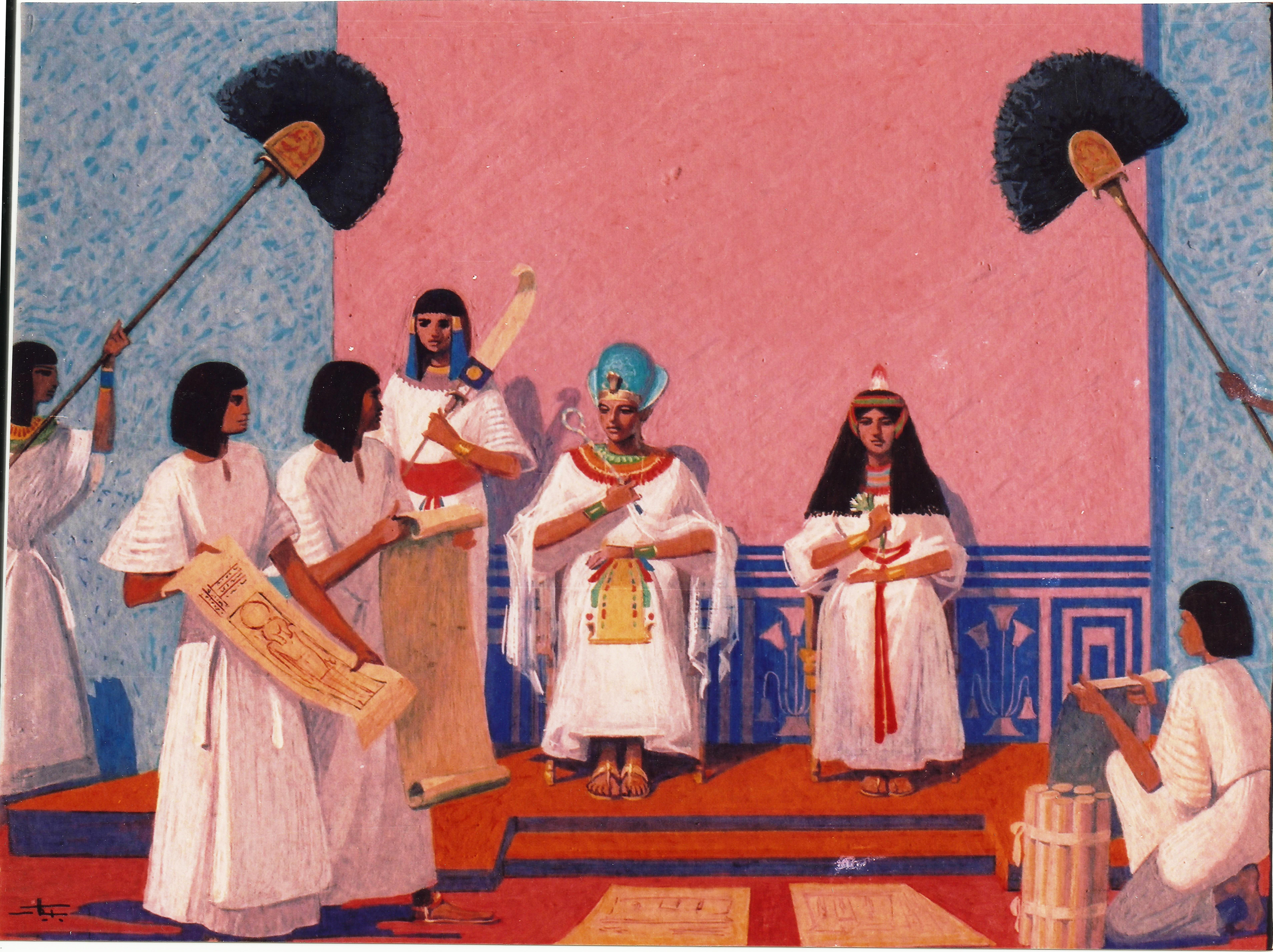 A painting by Hussein Bicar from "The Eighth Wonder" documentary film directed by John Feeney